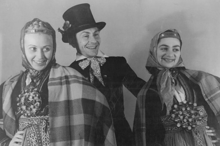 A dance group from Latvia performing a folk dance at the World Festival of Youth and Students (Budapest), 1949